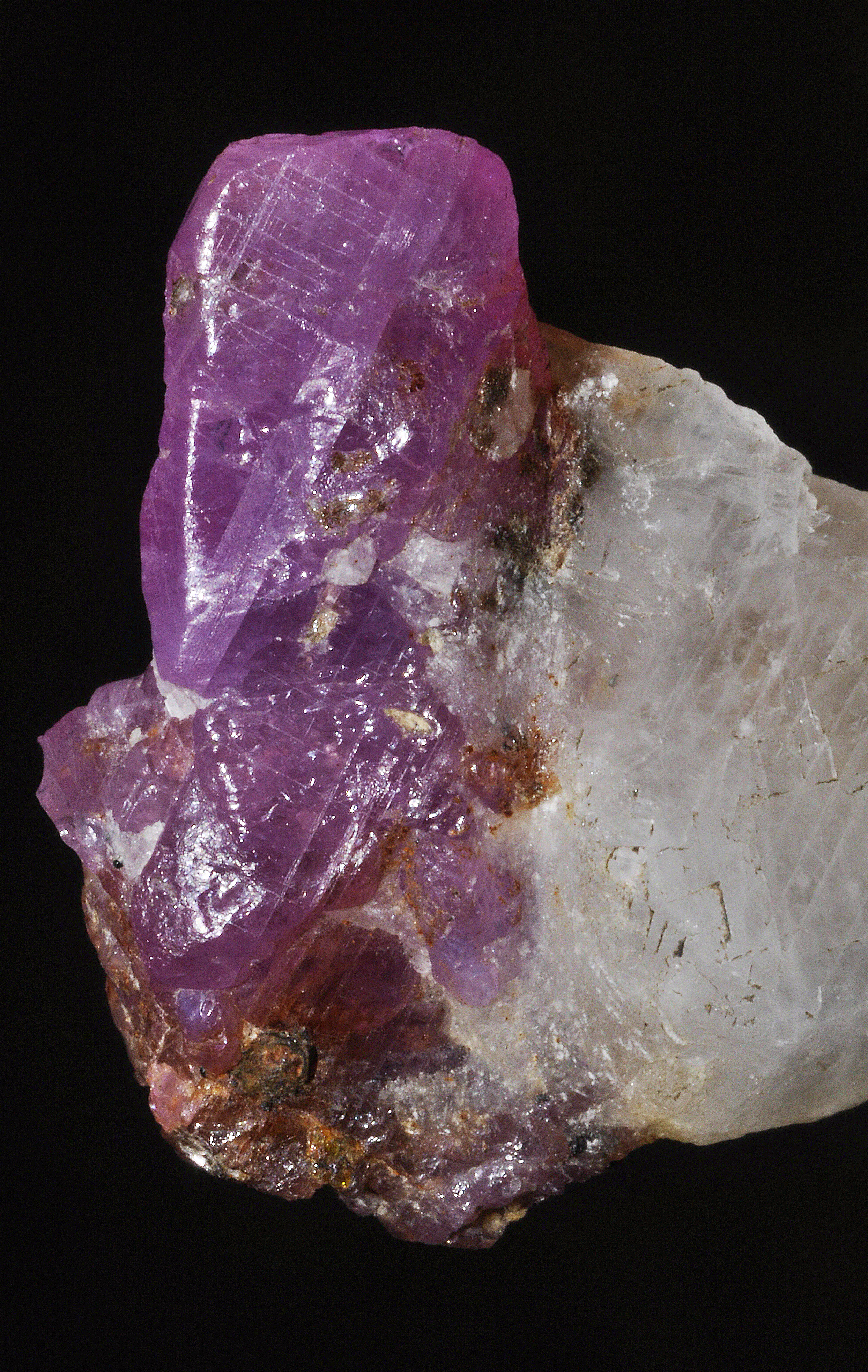 crystals of corundum var. ruby : Hunza Valley, Gilgit District, Gilgit-Baltistan (Northern Areas), Pakistan